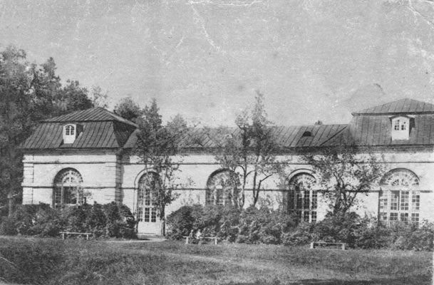 Forest greenhouse in Palace park, Gatchina, Russia, 1890s photo